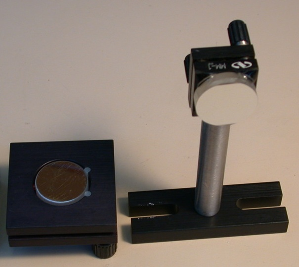 Two kinematic mirror mounts. The one on the right is attached to a threaded post and is ready to bolt onto an optical table. Photo taken at HP Labs by Alison Chaiken on January 6, 2006 with a Nikon 995 camera. Improved slightly using Image Magick.